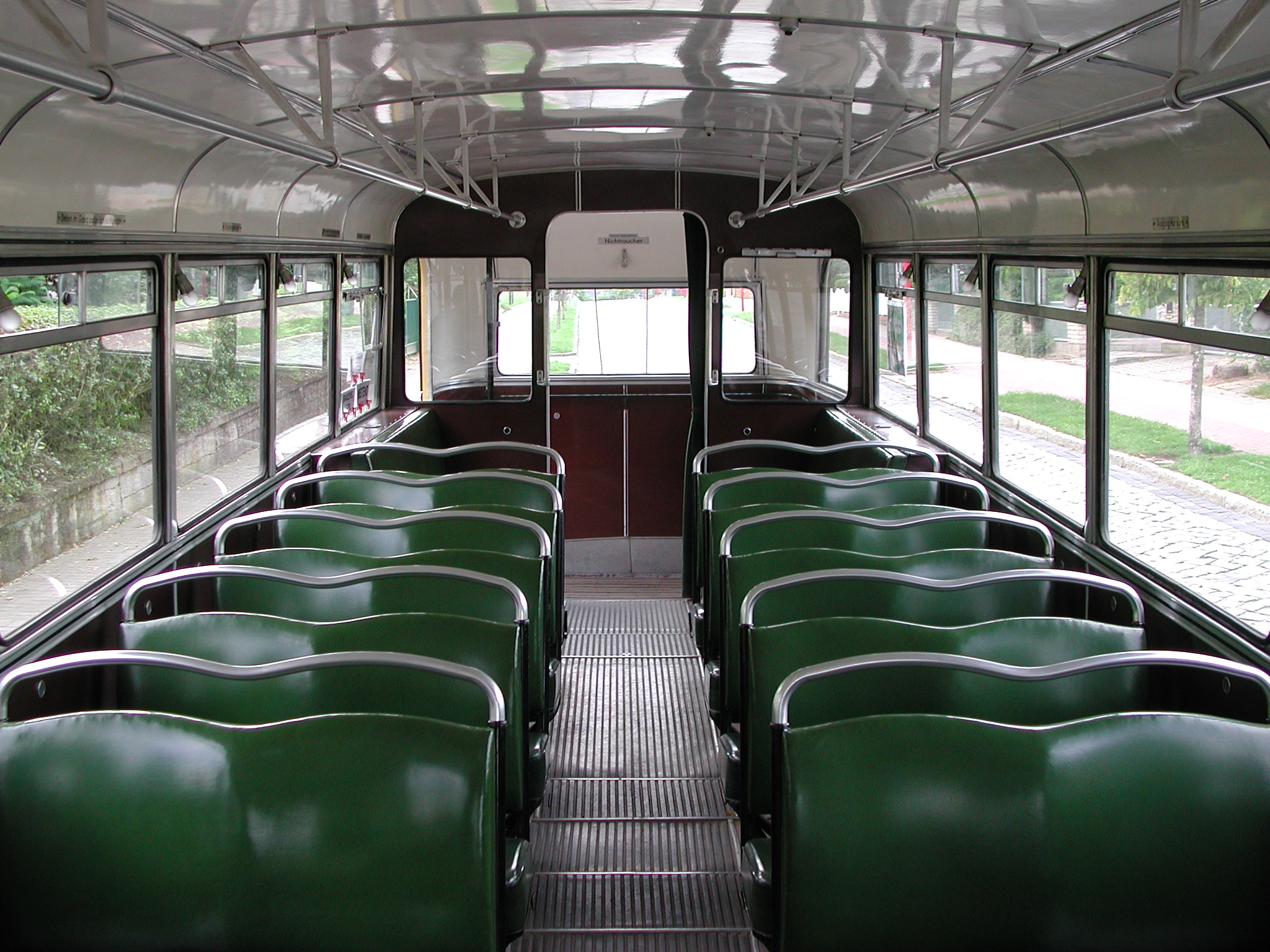 The interior of preserved Berlin trolleybus 488, a 1957-built Henschel HS56 with Gaubschat body and AEG electrical equipment, in Eberswalde in 2002.